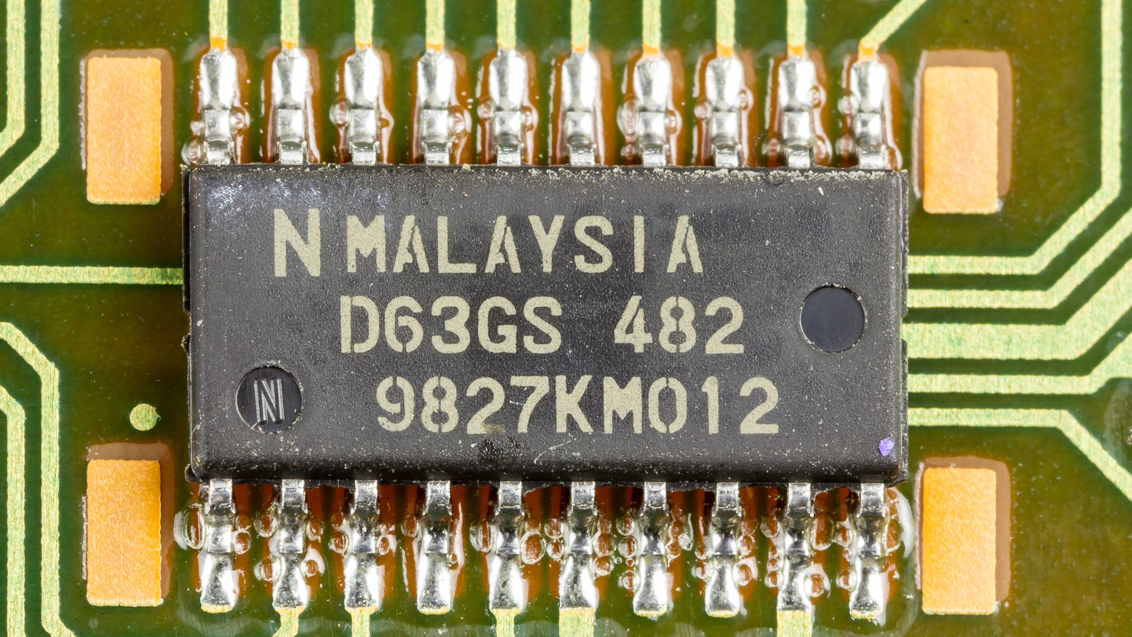 Alps remote control BHR970001B - NEC D63GS - 4-Bit Single-Chip Microcontroller for Infrared Remote Control Transmission. Package: 20-pin plastic SOP